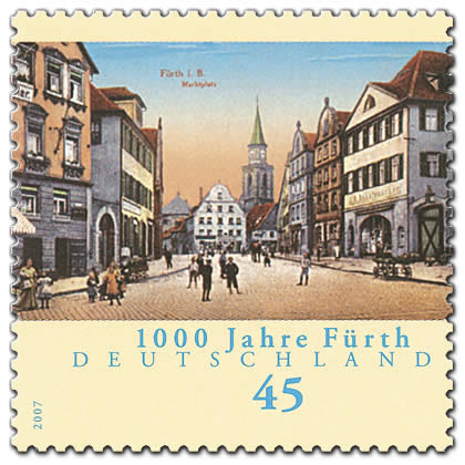 1000 years of Fürth Ausgabepreis: 45 Cent